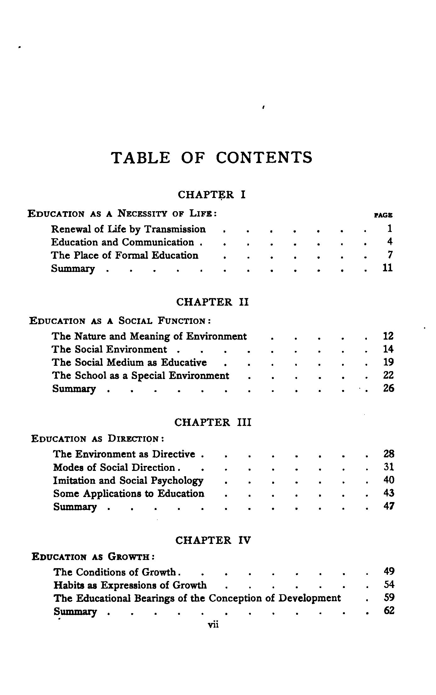 Page vii of Democracy and Education by John Dewey